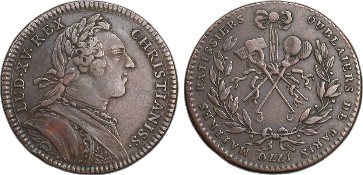 Jeton de la corporation des patissiers, 1770. Description revers : Moules à gaufres et à oublies entre deux branches de laurier sous un ruban